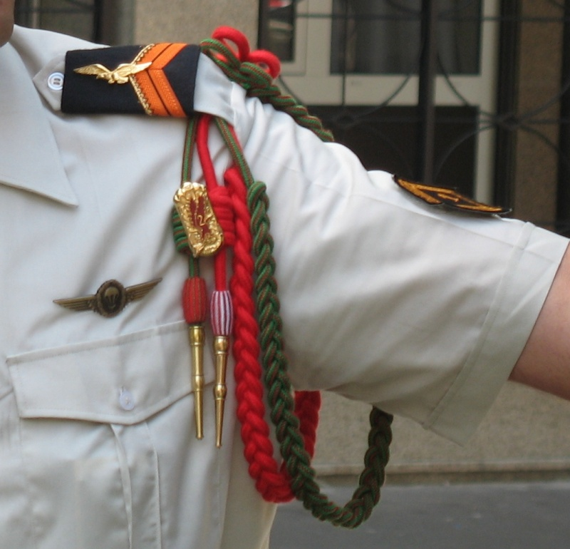 New fourragères of the 1st Parachute Chasseurs Regiment in the color of the ribbon of the Legion of Honor, with olive-colored ribbon of the Croix de guerre des Théâtres d'opérations extérieures, then the colors of the ribbon of the Croix de guerre of 1914-1918 with olive-colored ribbon of the Croix de guerre 1939-1945.